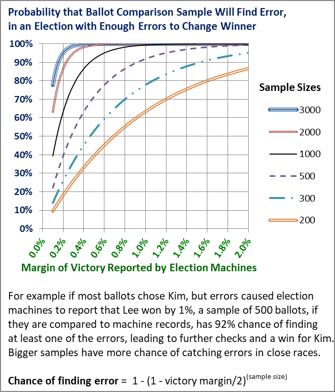 Graph shows chance that election audit will find error, for different levels of error and sample sizes